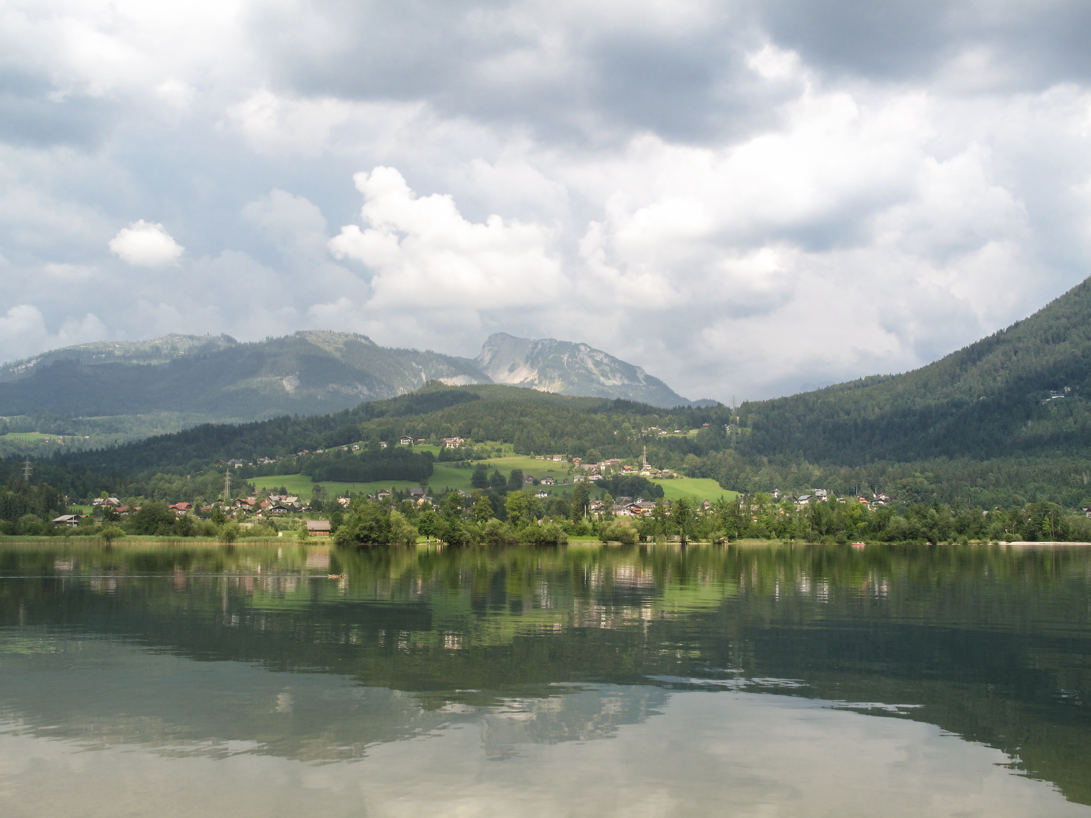 Untersee, view to the village